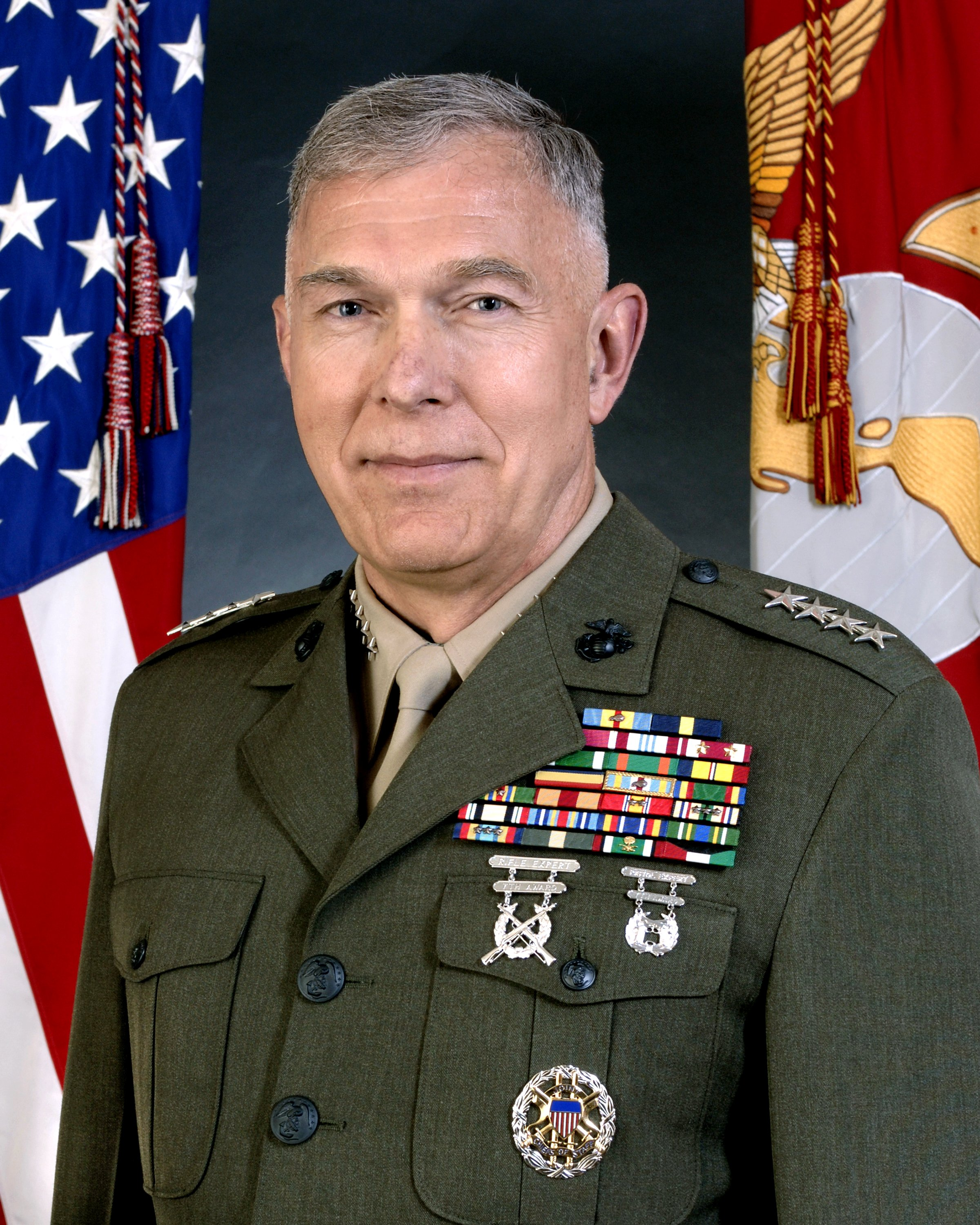 Official photo of General James T. Conway, Commandant of the U.S. Marine Corps.